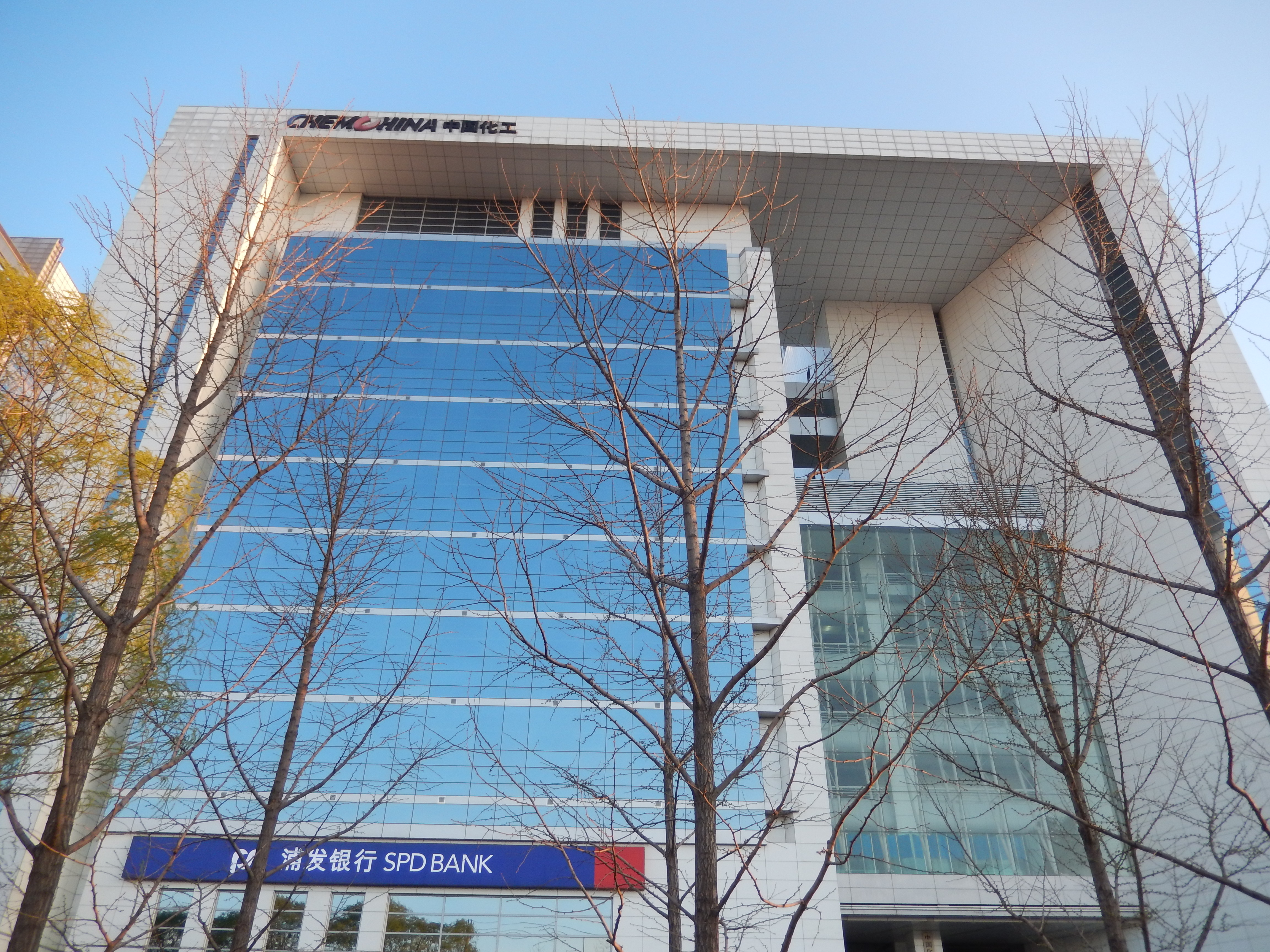 ChemChina Tower in Zhongguancun, Haidian District, Beijing.